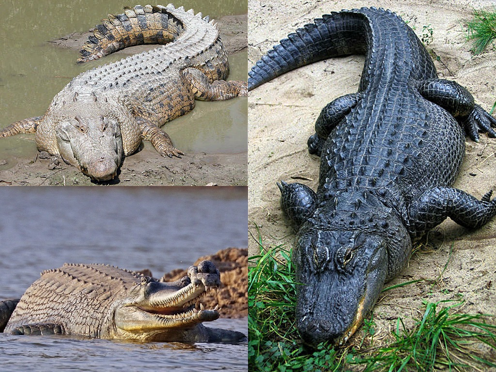 Clockwise from top: Saltwater crocodile (Crocodylus porosus), American alligator (Alligator mississippiensis) and Indian gharial (Gavialis gangeticus)